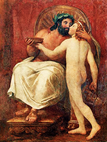 Roman fresco Jupiter and Ganymede (1758-59) by Anton Raphael Mengs.